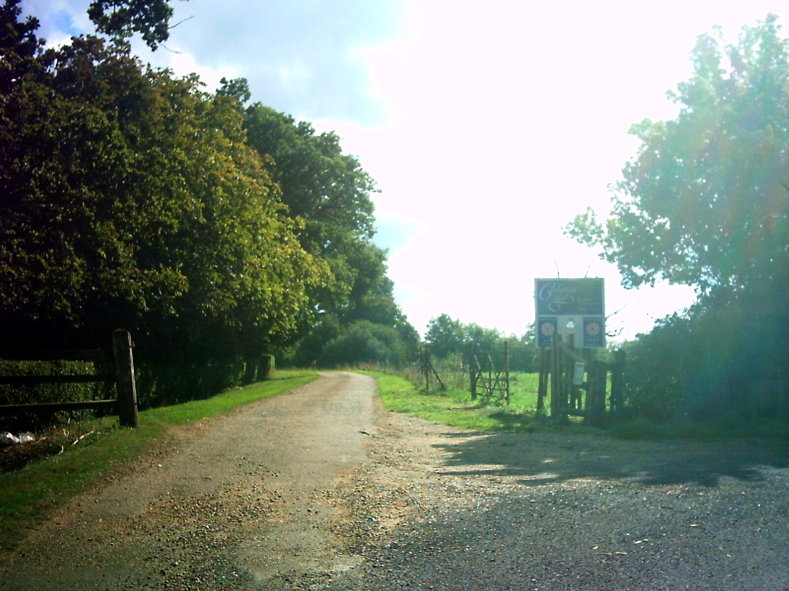 Entrance to Colston Hall.